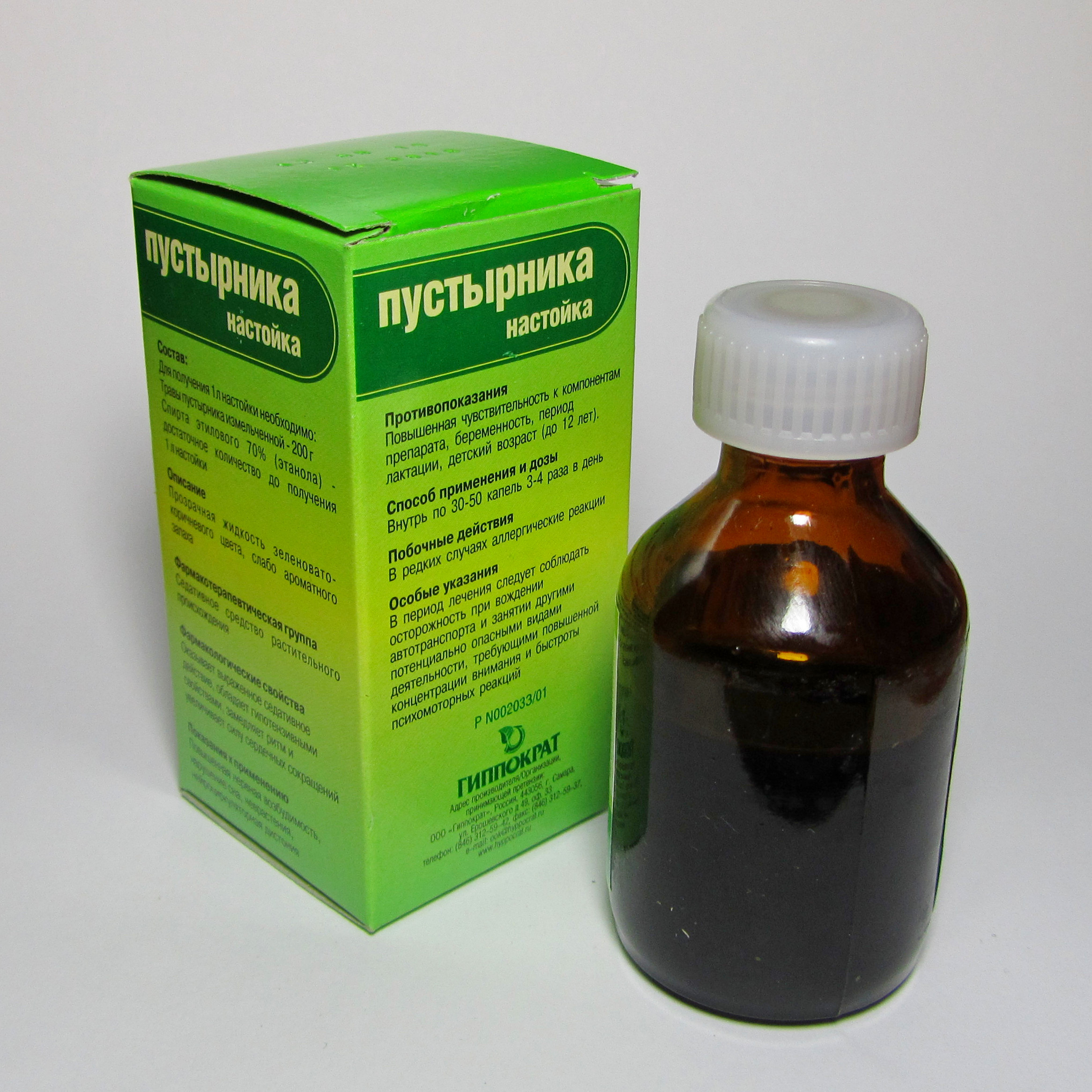 Leonurus Herbal Tincture